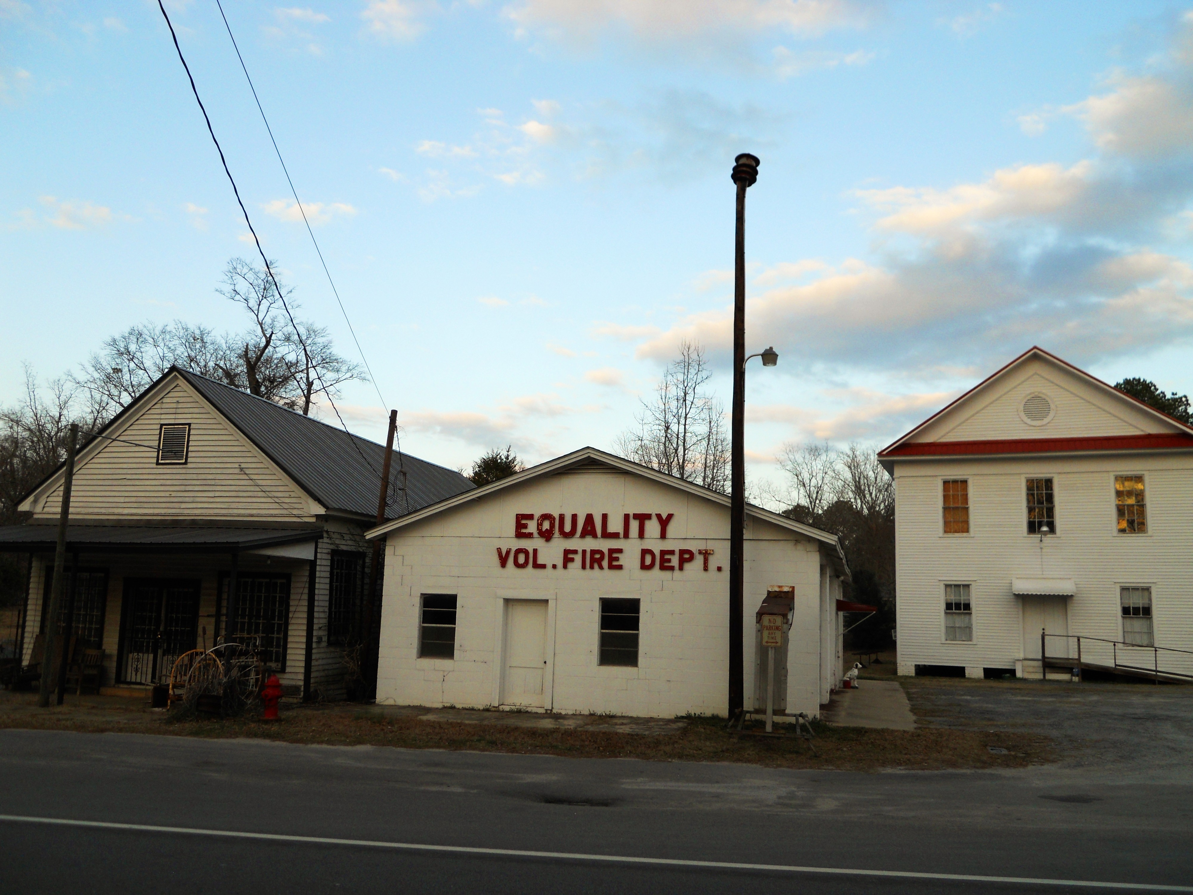 This is a photograph of Equality VFD, Alabama.